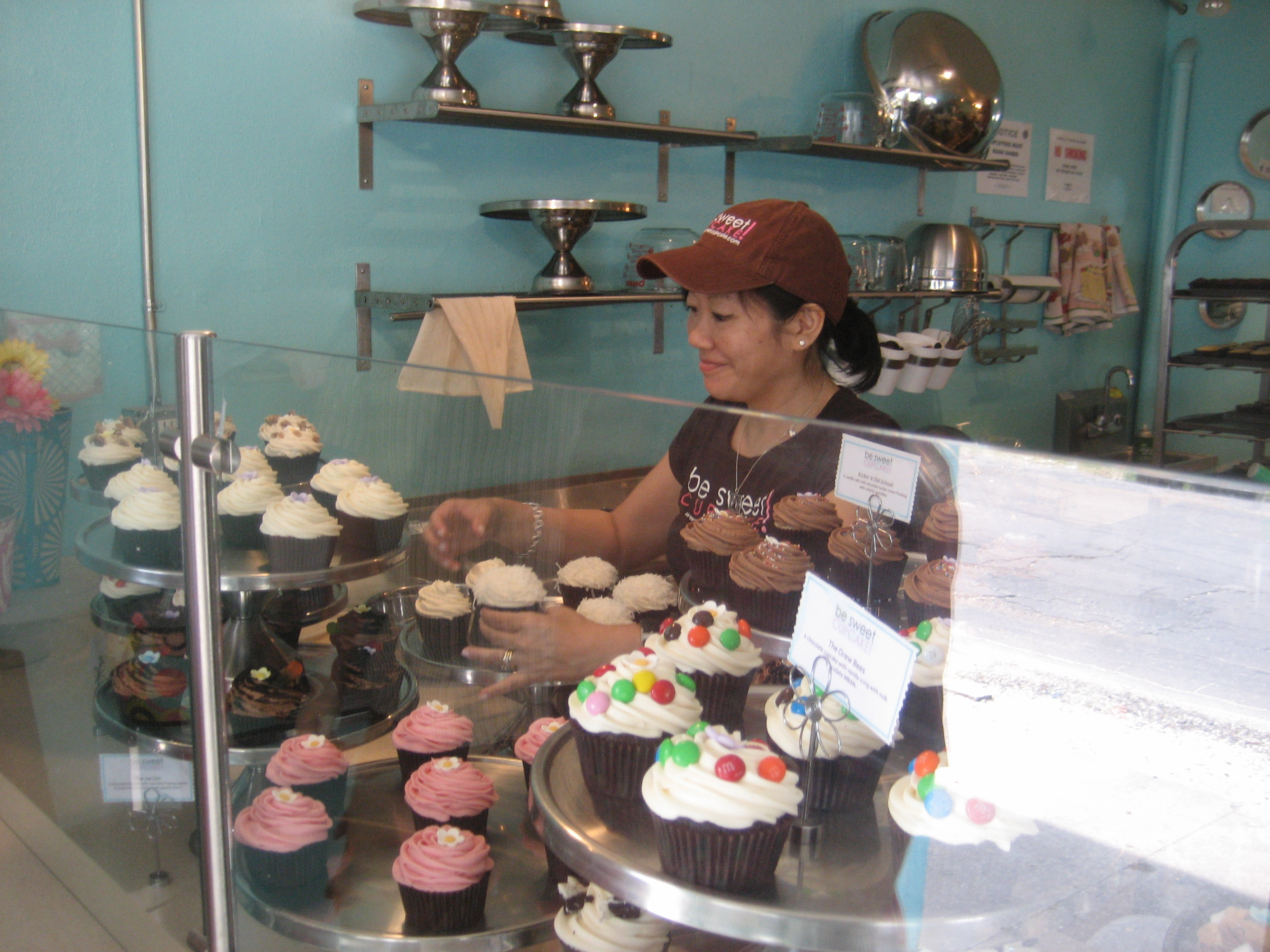 Magazine Street, Uptown New Orleans. Cupcake shop on block between Nashville & Arabella streets.